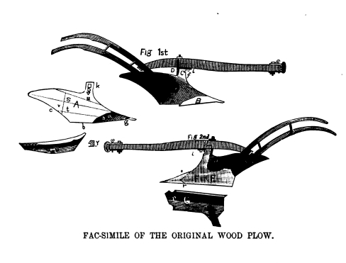 Drawing of the cast-iron moldboard plow invented by Jethro Wood in 1819, from Frank Gilbert's 1882 biography of Wood. Gilbert annotates the drawing as follows: Side view of Plough. A Mould-board, the form of which is claimed as new. B Share claimed. C Standard claimed. DD Screw-bolt, and not confining the beam to the Standard. a, b, c, d, e, the 1st, 2d, 3d, 4th and 5th sides mentioned in the specification. g, g. Excavation at the fore part of the mould-board to receive the share which fills it up and forms an even surface. h Hole to receive the knob or head cast on the under side of the share, which, on being shoved up to its place, nooks under the mould-board at the upper side of the hole, and is held in its place by a wooden wedge driven between the knob and the lower side of the hole. f Notches in the Standard to receive the latch i in elevating or depressing the beam. s, t, v. Straight diagonal lines touching the mould-board the whole distance. u Vertical or plumb line touching the mould-board from top to bottom. H Reverse side of the share. x Knob to hold it fast to the mould-board. y Side view of knob. zz Shiplaps fitting under the point and edge of the mould-board. k Another form of standard keyed on top of beam. Fig. 2d, landside view: E The “landside”. F part of landside cast with mould-board. mm Cast loops to hold the handles claimed. n Head of screw-bolt held by a shoulder made by a projection from the mould-board and standard, through which the bolt passes up to the beam. o Share claimed. p Shiplap claimed. G Inside view of landside. r Tennon at forward end to fit into a dovetailed mortice on the inside of that part which is cast with the mould-board.